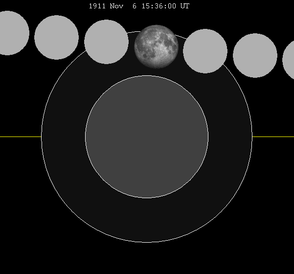 =lunar eclipse chart of moon's path through the earth's shadow. thumb